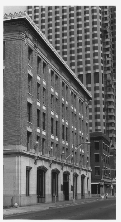 Picture used for the Nomination Form from the Ann Street Historic District